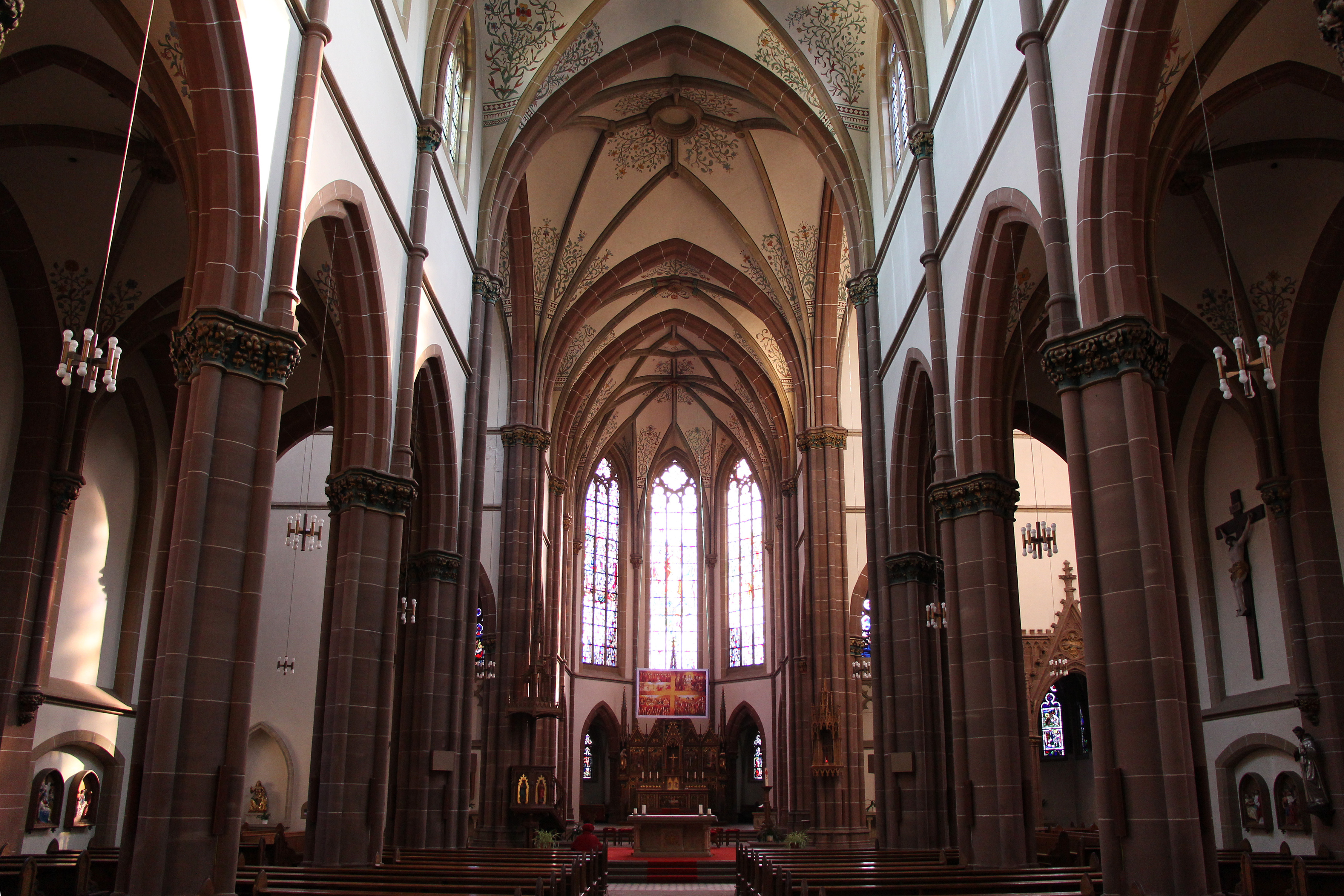 St. Josef church in Koblenz